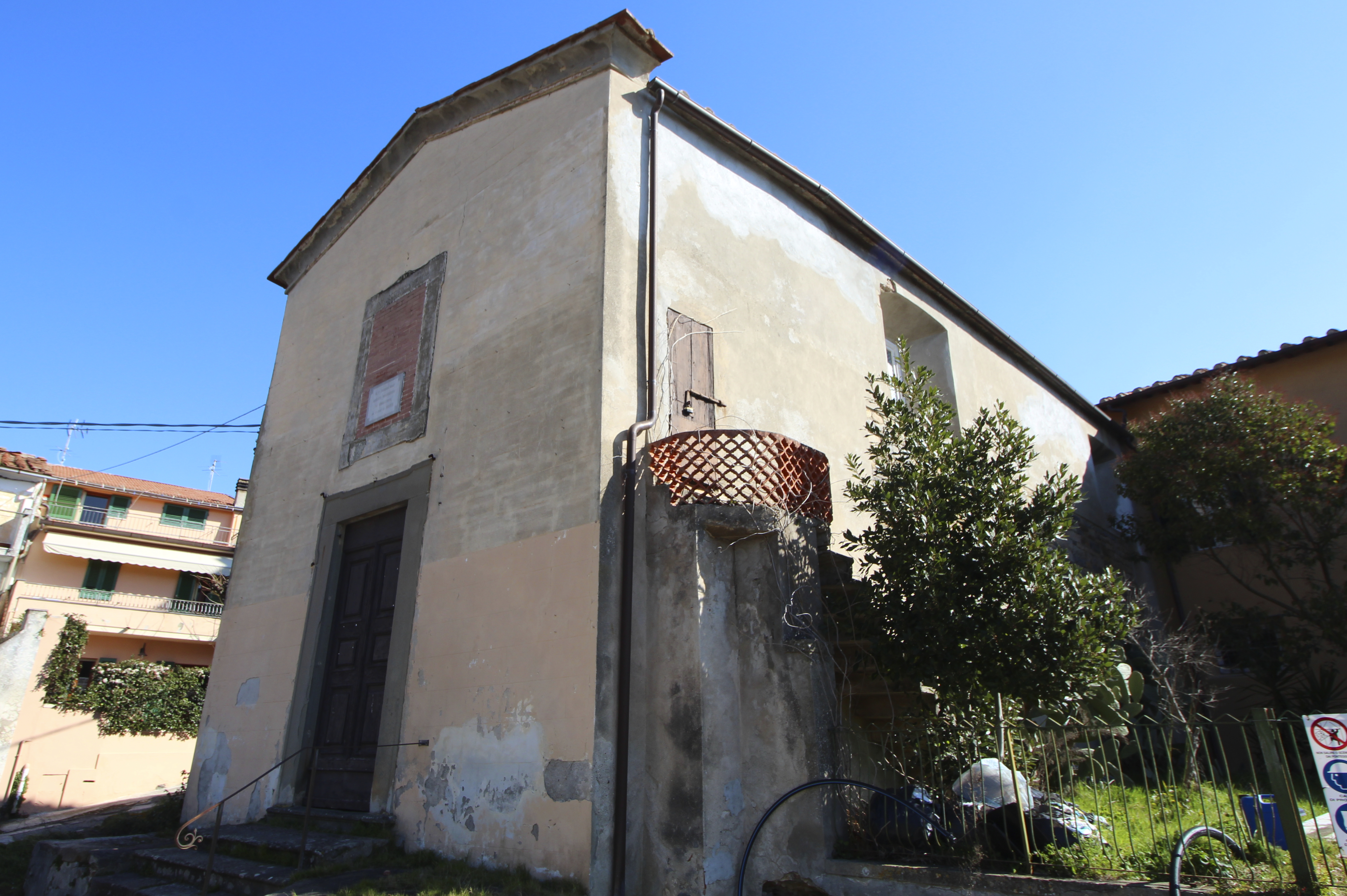 Sant'Andrea, Church in Sant'Andrea a Lama, hamlet of Calci, Province of Pisa, Tuscany, Italy